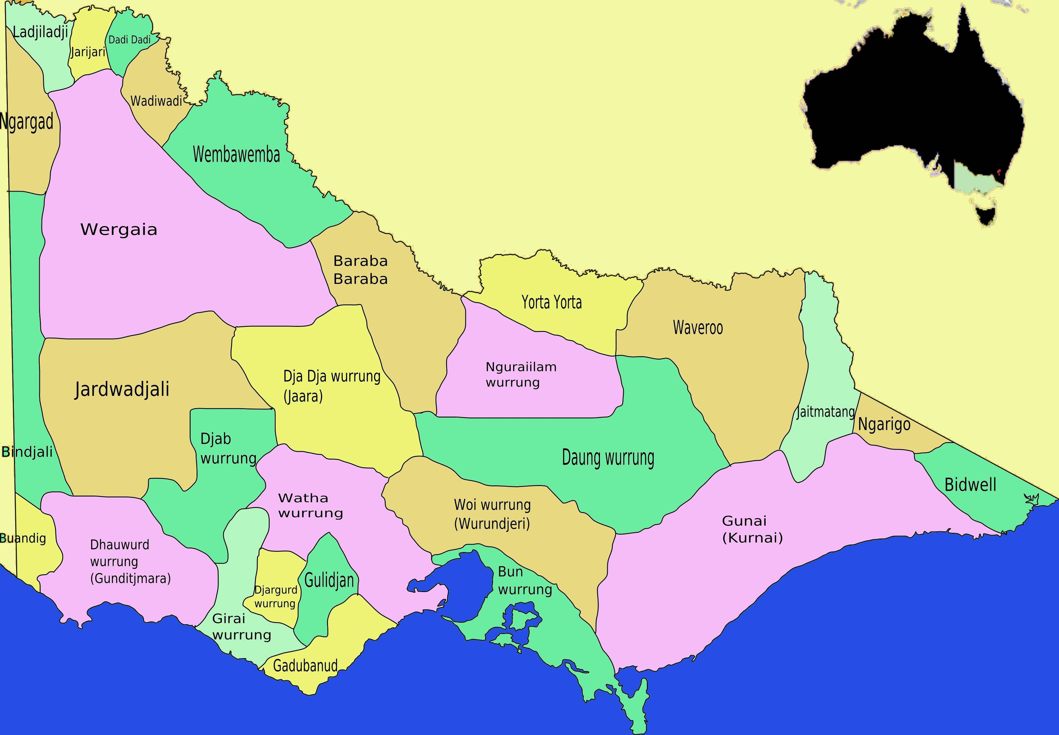 This is a map I created of aboriginal tribal territories and languages in Victoria, Australia coloured to easily distinguish different tribal areas derived from Image:Map Victoria Aboriginal tribes.svg which was also drawn by myself. The drawing is based on information and a map drawing in Ian D. Clark, Scars on the Landscape. A Register of Massacre sites in Western Victoria 1803-1859, Aboriginal Studies Press, 1995 ISBN 0855752815. To a lesser degree information was correlated with the Aboriginal Australian Map published by AIATSIS, especially for border areas and east Victoria.[1]. - Takver